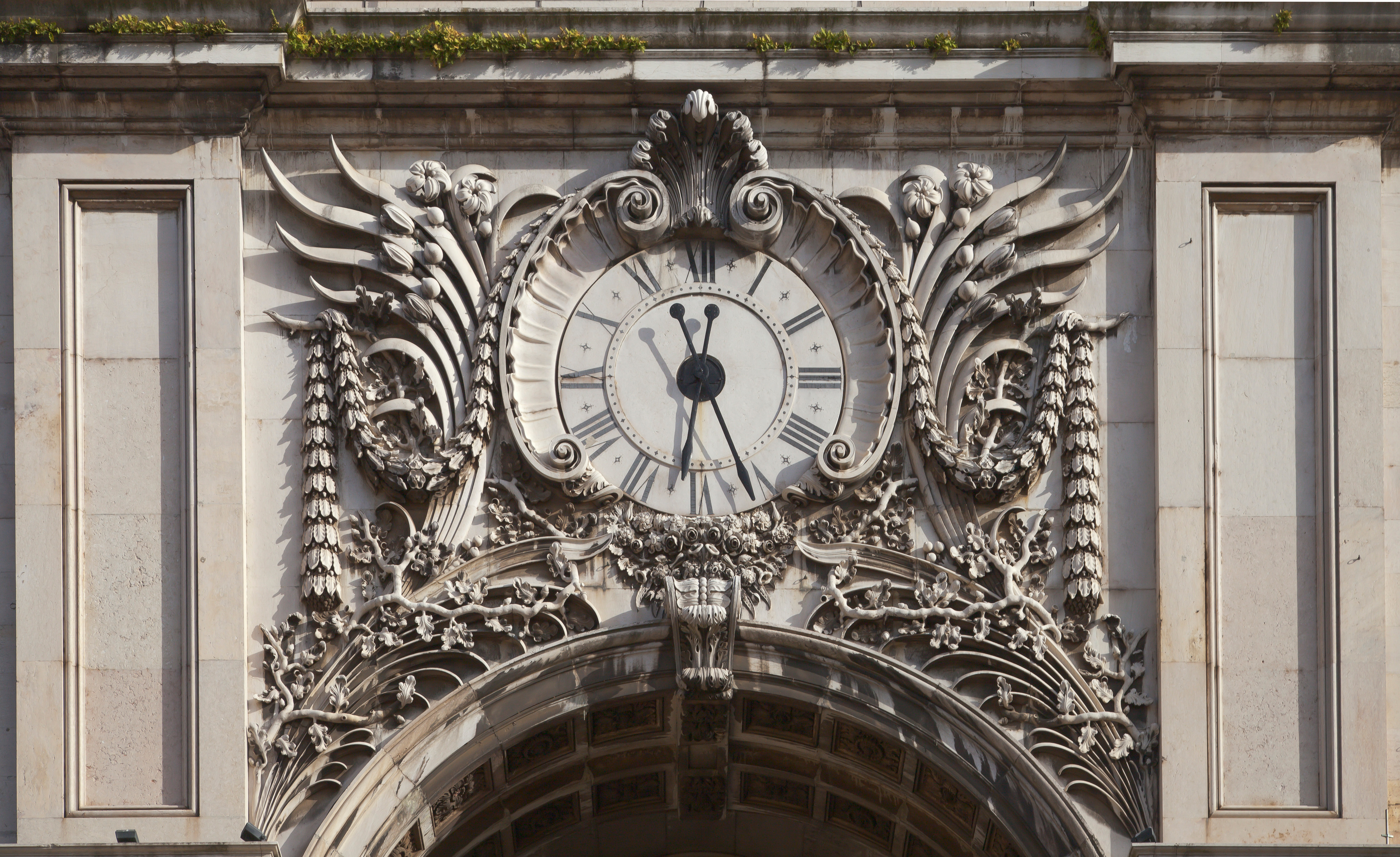 Triumph Arch in Rua Augusta, Lisbon, Portugal